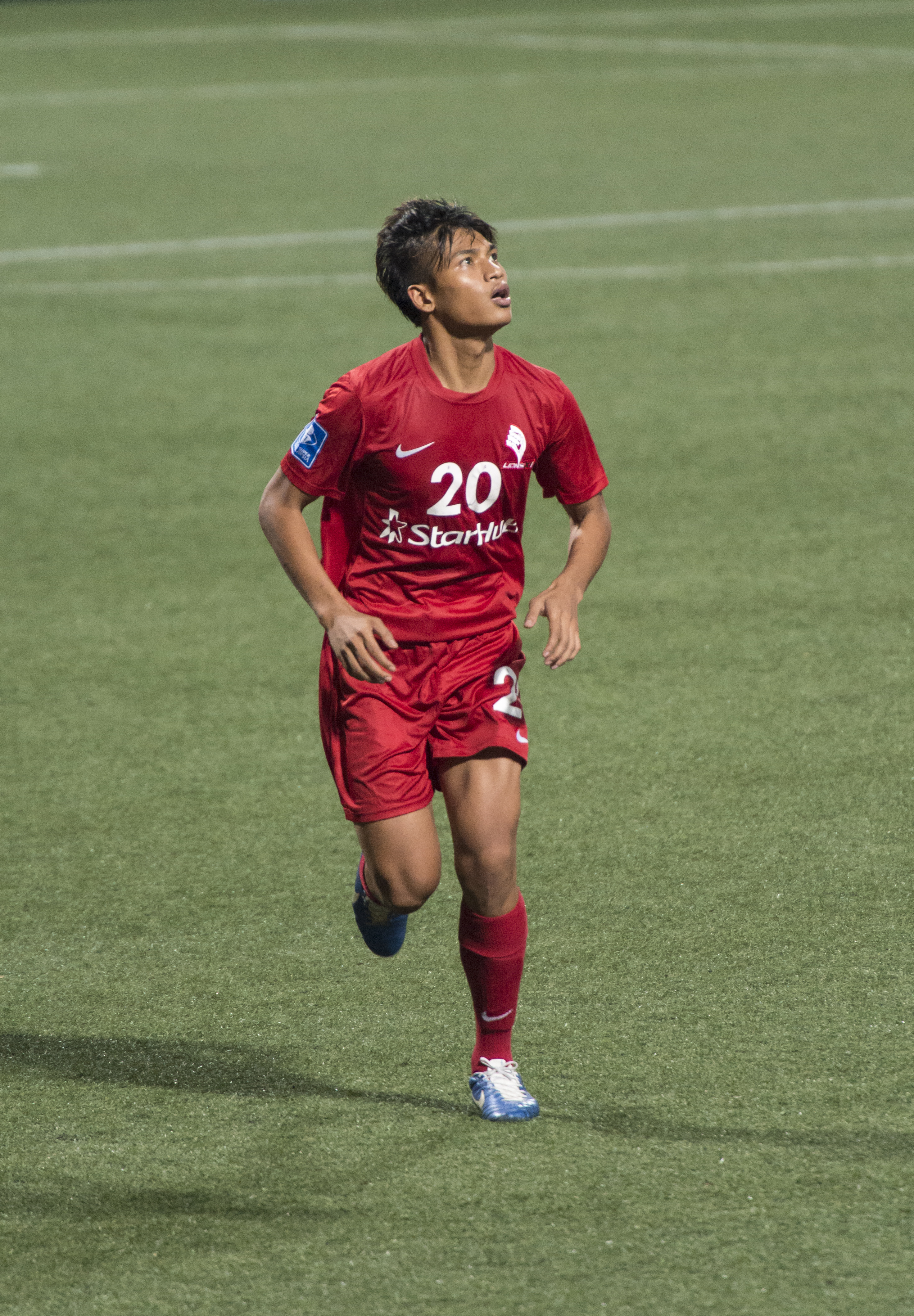 khairul nizam singapore lionsxii malaysia super league 2013